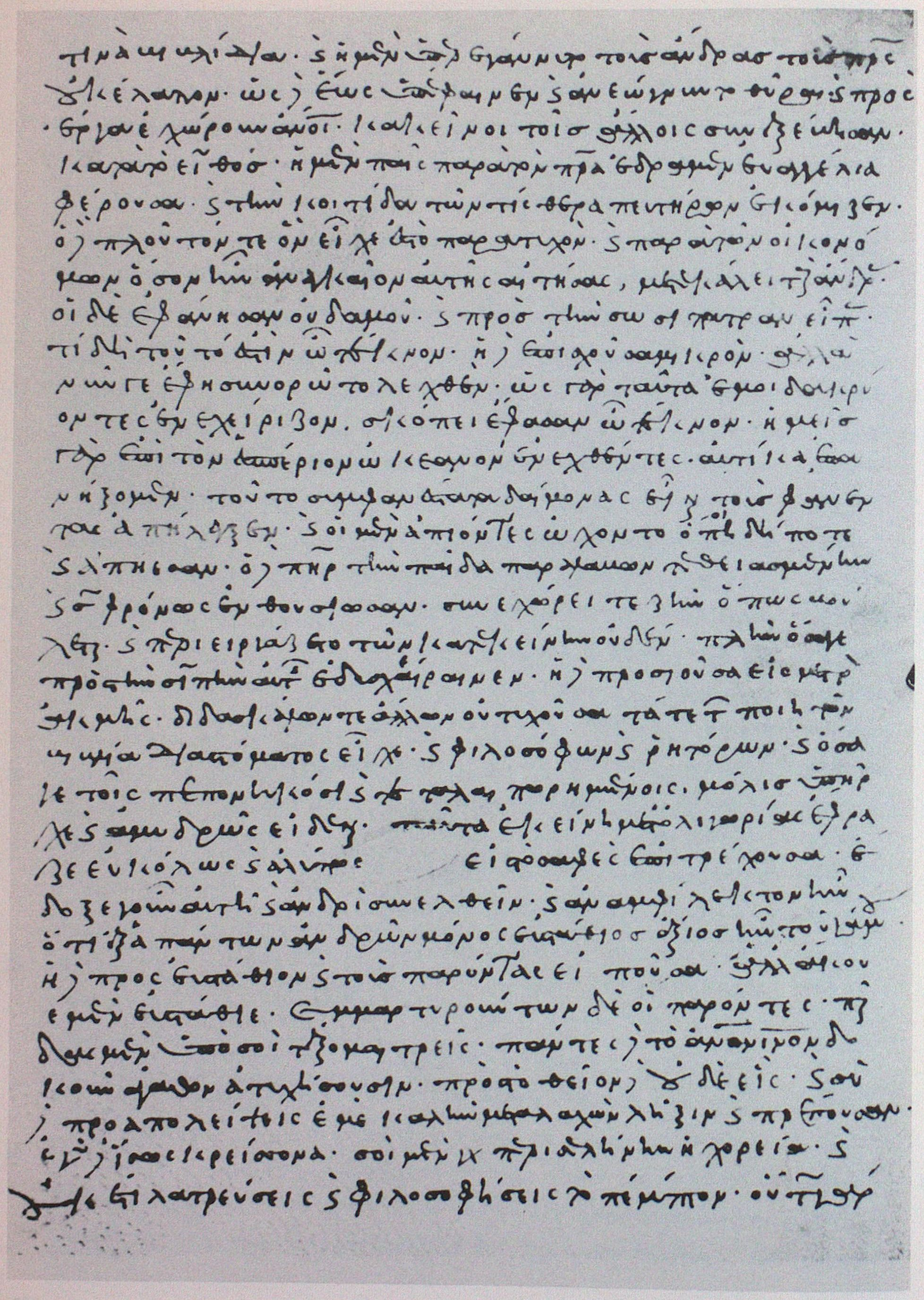 A page of a manuscript of the „Vitae sophistarum“: Florence, Biblioteca Medicea Laurenziana, Plut. 86.7, fol. 229r.